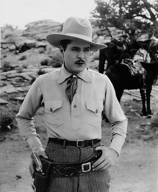 Photo of Warner Baxter from the 1927 film Drums of the Desert.